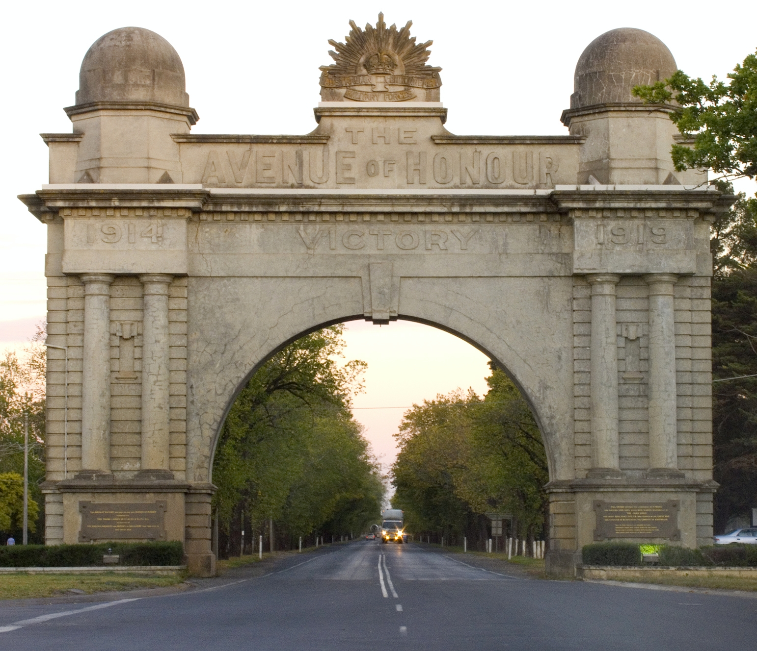 Ballarat Avenue of Honour at Dusk.